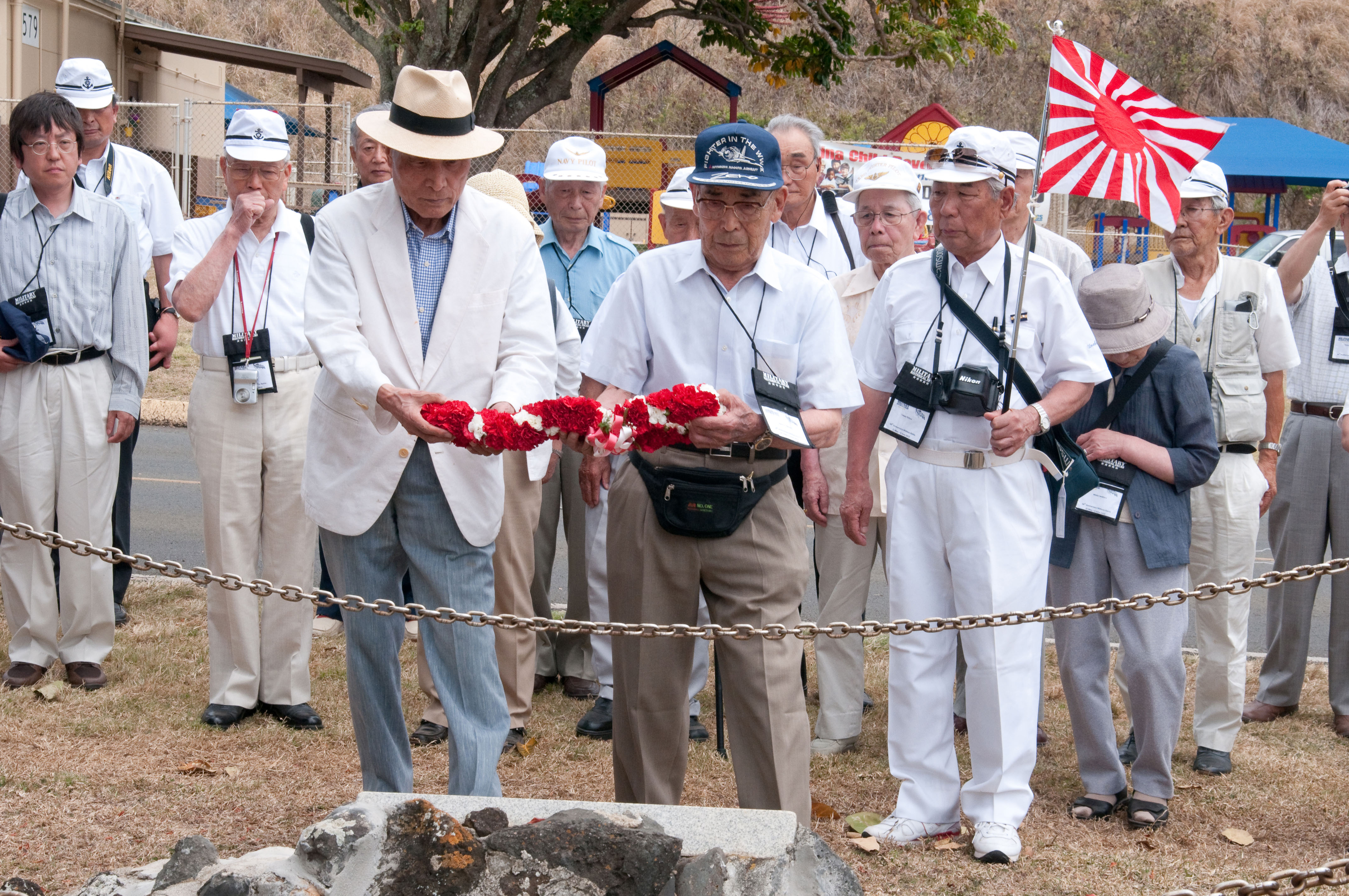 Former Japanese Imperial Navy Lt. j.g. Kaname Harada (blue cap) places a carnation lei on a memorial to fallen Japanese pilot Lt. Fusata Iida during his visit to Marine Corps Base Hawaii June 3. Harada toured the base with several members of the Unabarakai Association of Tokyo, comprised of surviving Japanese Zero fighter pilots.